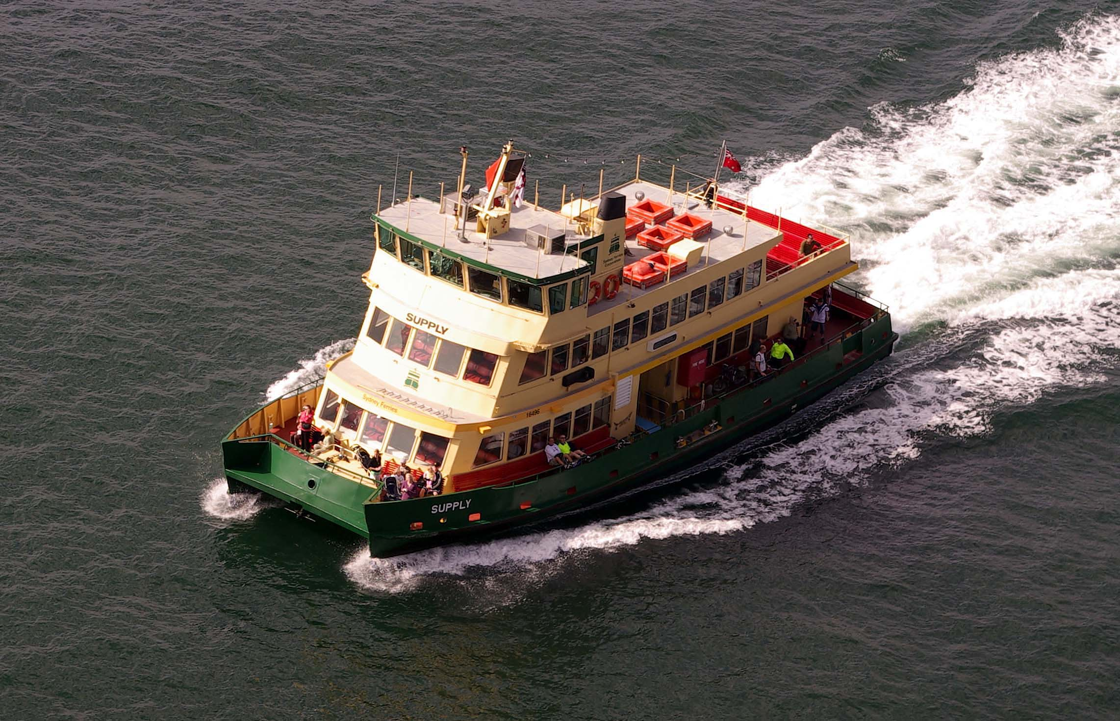 The Sydney commuter ferry "Supply", as viewed from the Sydney Harbour Bridge.